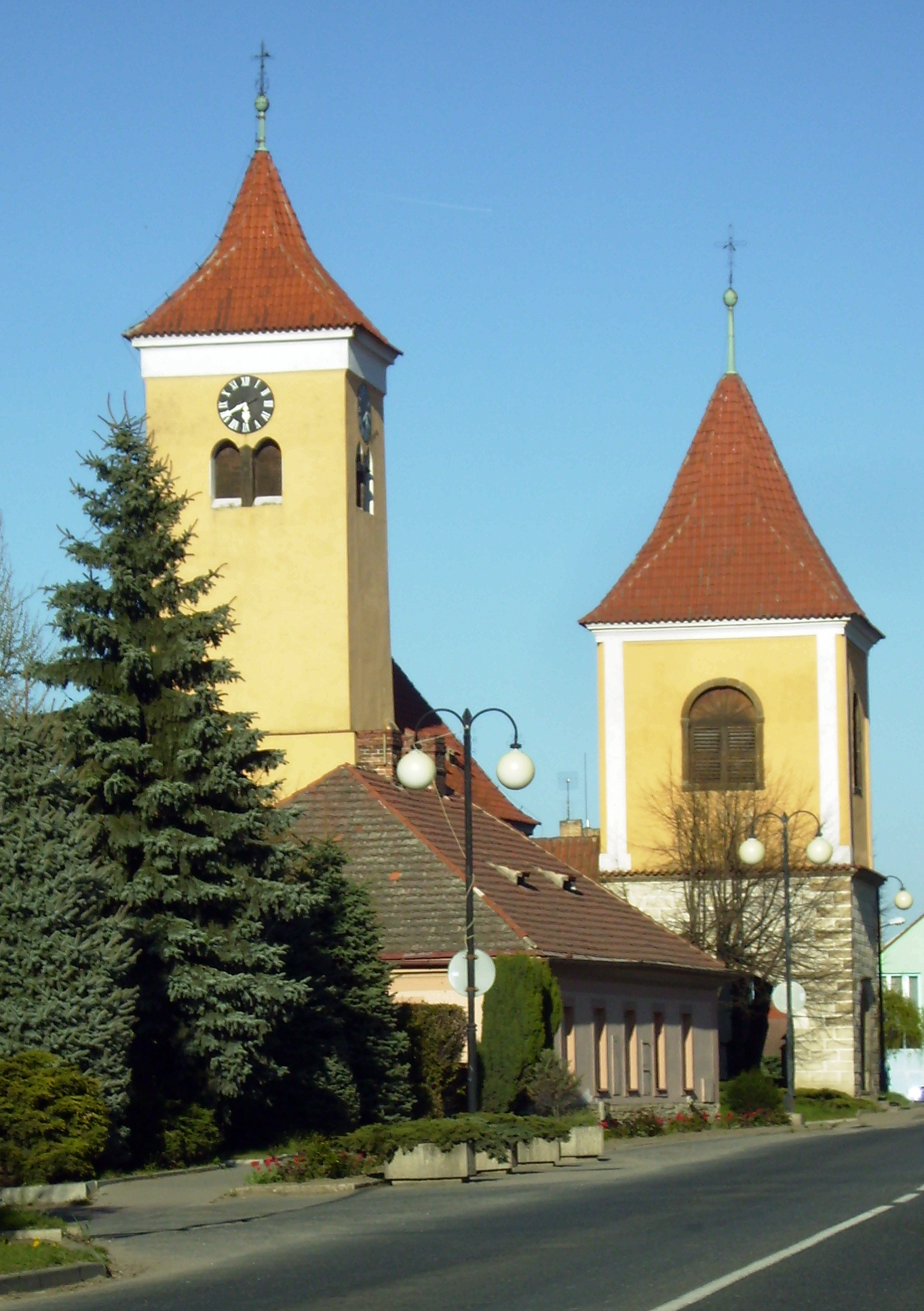 St. Wenceslaus Church and stone bell tower — in town centre of Nehvizdy, Prague-East District, the Czech Republic.